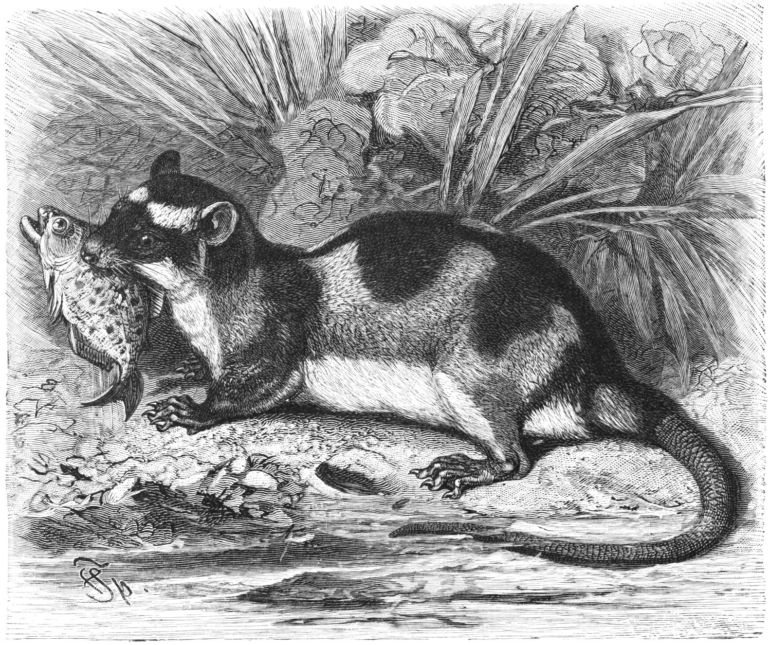 Original caption: "Schwimmbeutler, Chironectes minimus Zimm. 1/3 natürlicher Größe." Translation (partly): "Water opossum or yapok, Chironectes minimus Zimm. 1/3 natural size." Size: 5.3 x 4.4 in² (13.4 x 11.2 cm²) Originator: Friedrich Specht